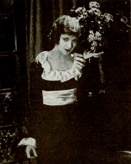 Still from the American romantic comedy film Happiness a la Mode (1919) with Constance Talmadge, on page 1993 of the June 28, 1919 Moving Picture World.